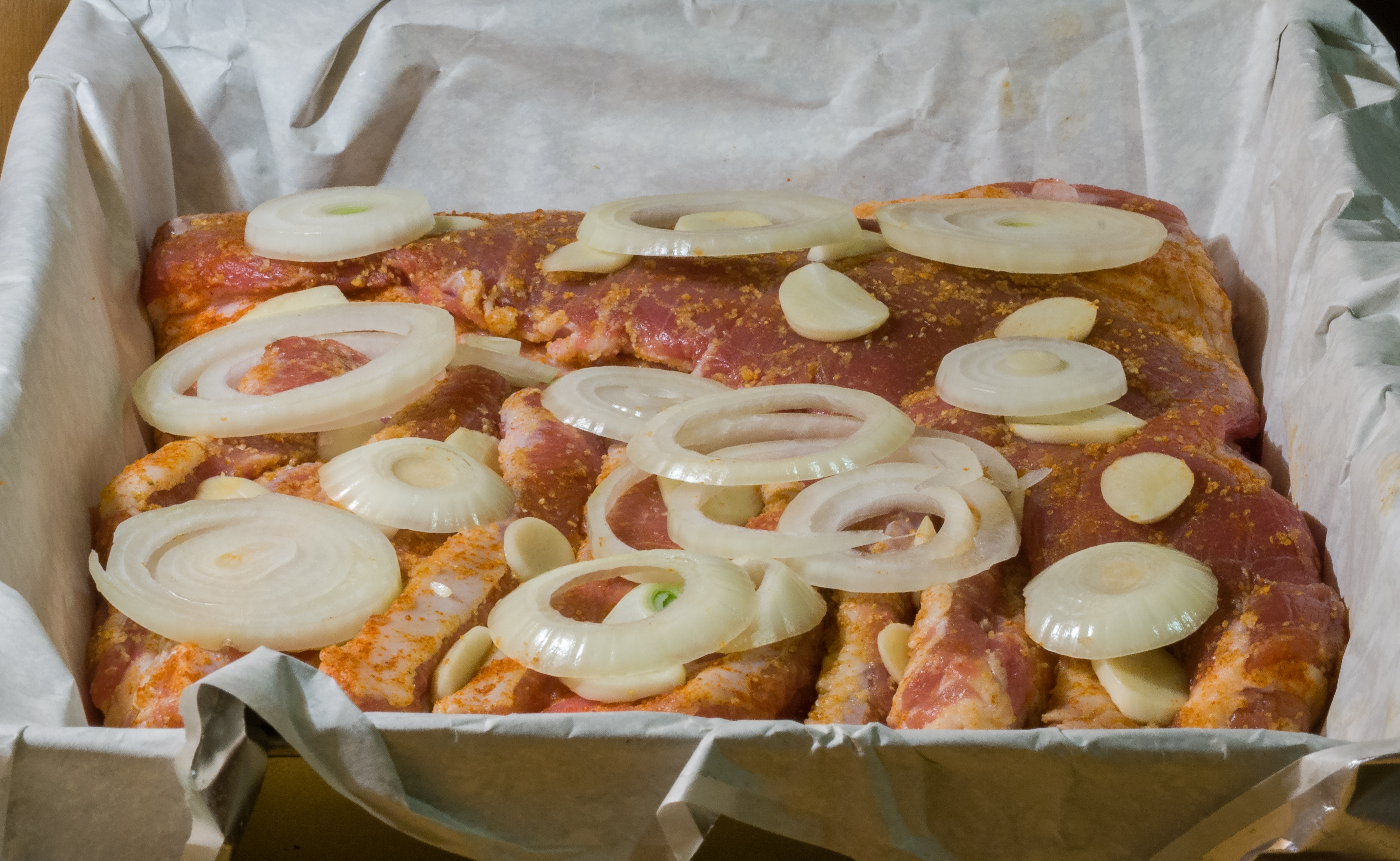 Boczek preparation, Gniezno, Poland